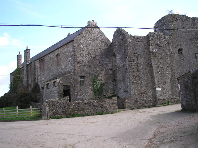 Wharton Hall. A fortified manor house dating in parts from the 14th Century. An aerial photograph is even more impressive and can be found at